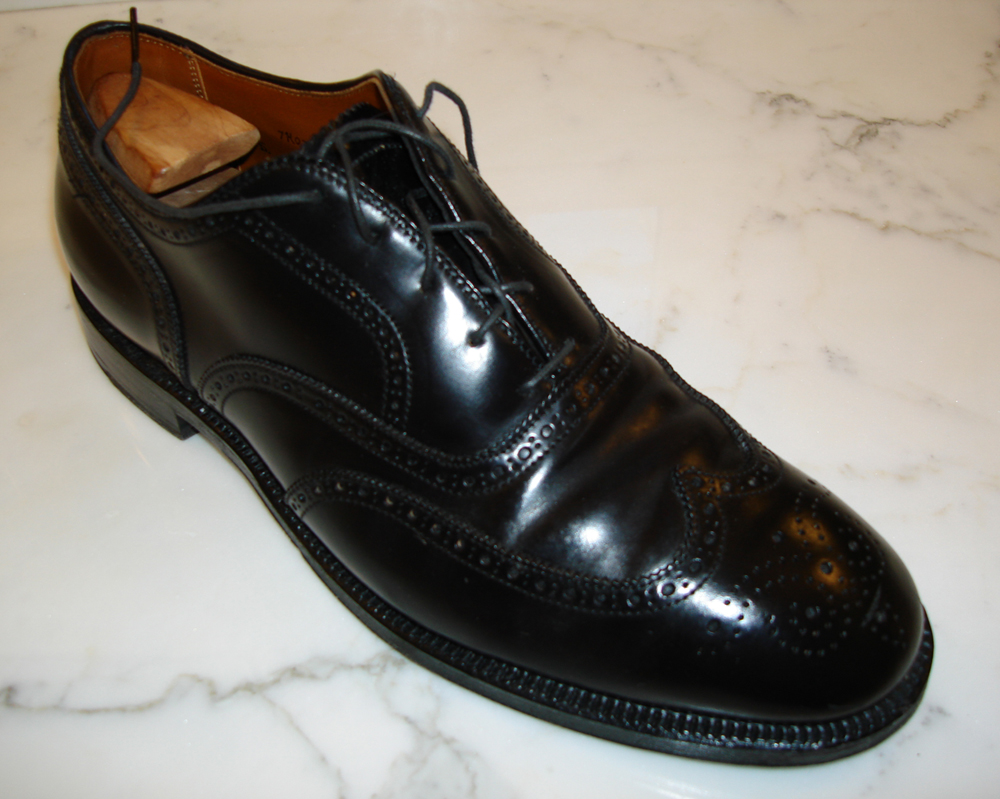 Shell cordovan wingtip oxford dress shoe